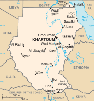 Sudan map from CIA World Factbook 2004, converted from original GIF format